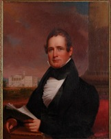 Portrait of Thaddeus Stevens by Jacob Eicholtz on campus of Gettysburg College